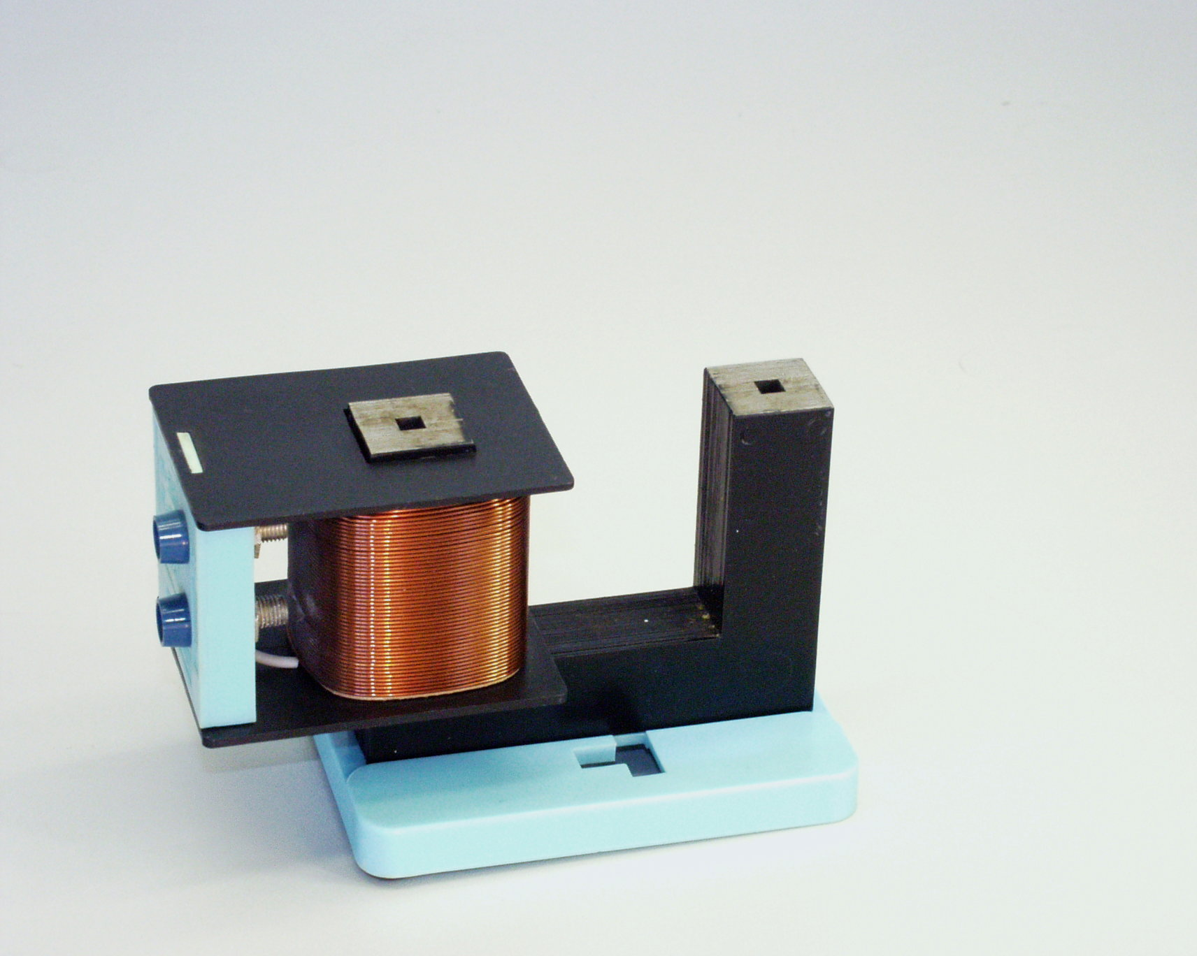 Demountable transformer (2.)